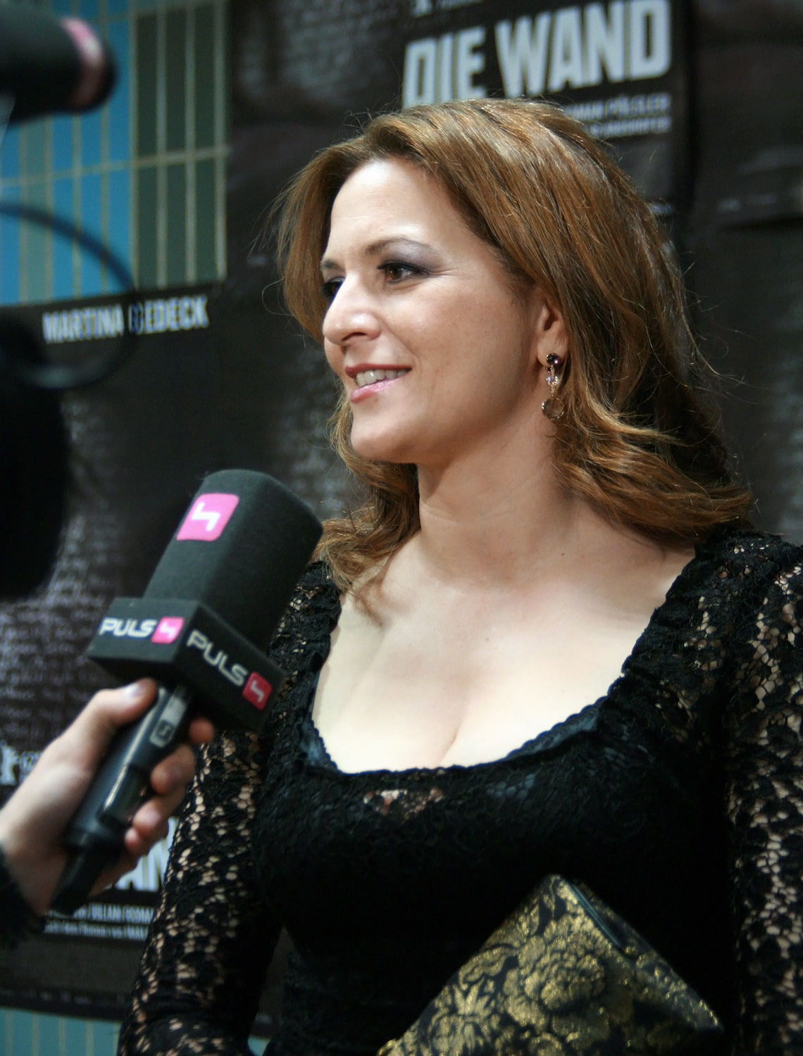 Martina Gedeck at the Austrian premiere of Die Wand (The Wall) at Gartenbaukino in Vienna, Austria.